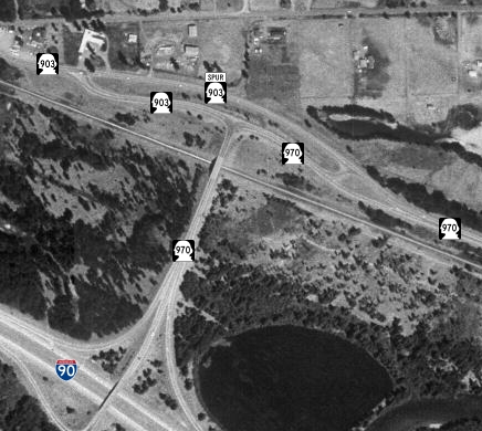 Image of interchange of Washington State Routes 903, 903 Spur and 970 with Interstate 90, southeast of Cle Elum, Washington